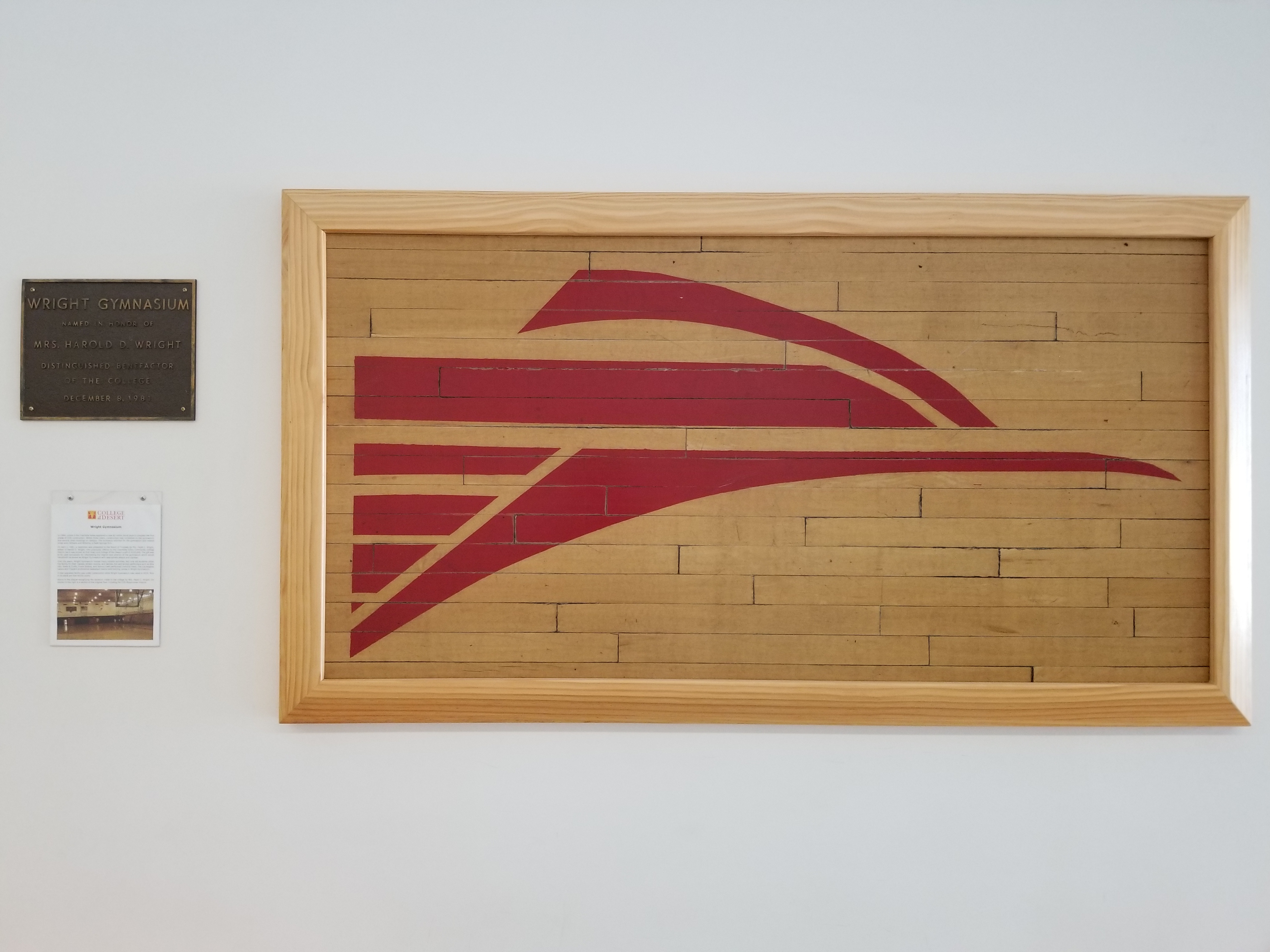 On a wall inside of the Cravens Student Services Center, sits a display of the old center court Roadrunners logo and plaque from the old Wright Gym.